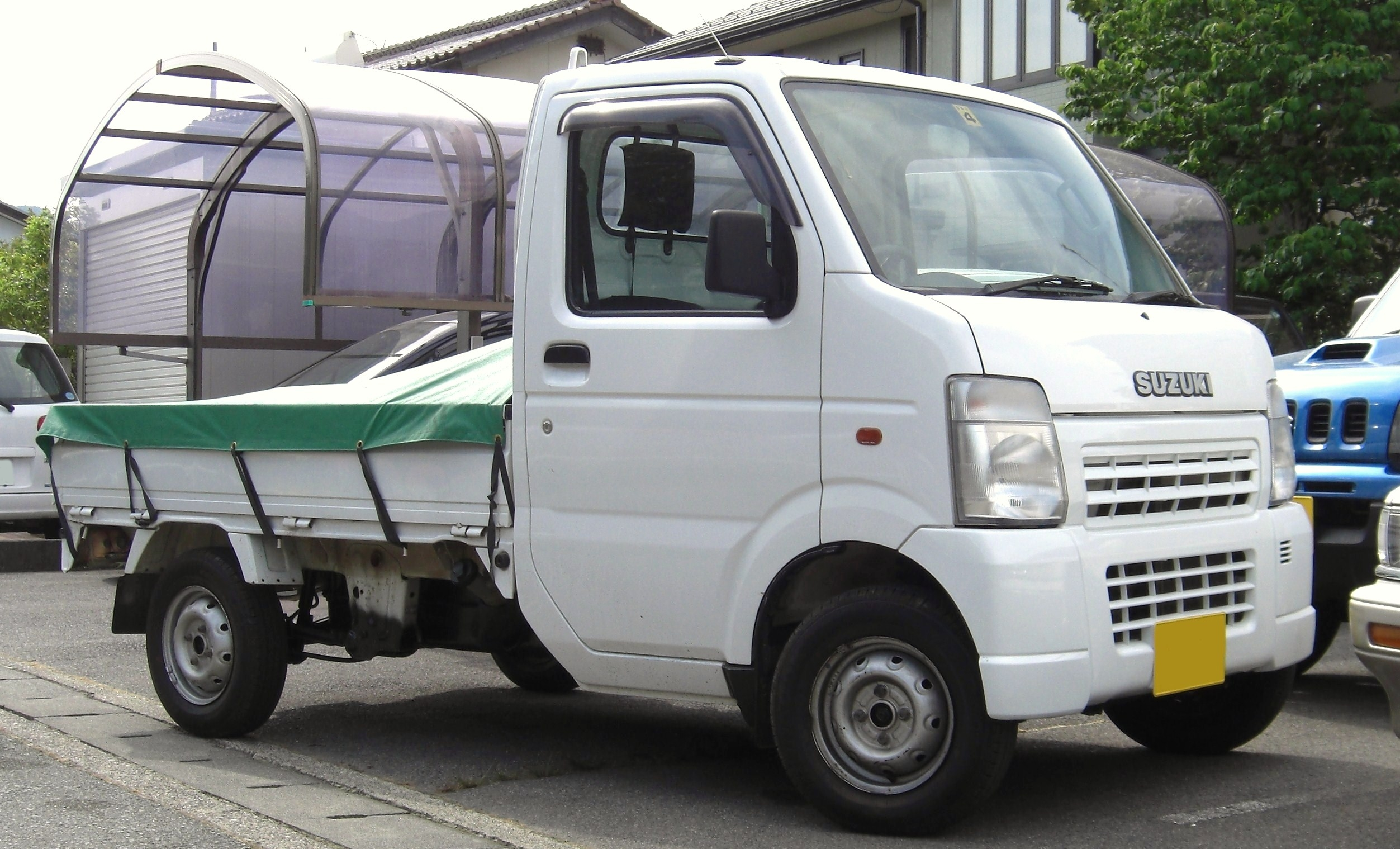 Suzuki Carry